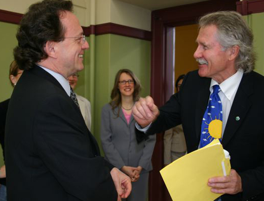 John Kitzhaber and David Schleich at the National College of Natural Medicine